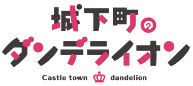 Castle Town Dandelion logo